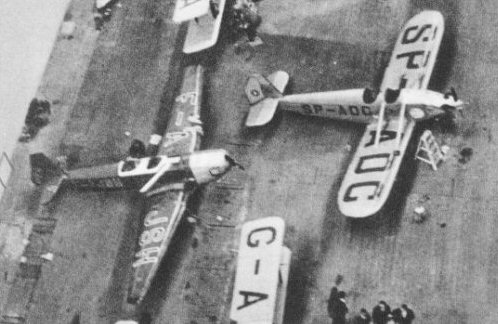 The aircraft Caudron C.193 (F-AJSH, pilot Francois Arrachart) and PWS-51 (SP-ADC, pilot Józef Lewoniewski) before Challenge 1930 contest (cropped photo Chalenge1930.jpg)